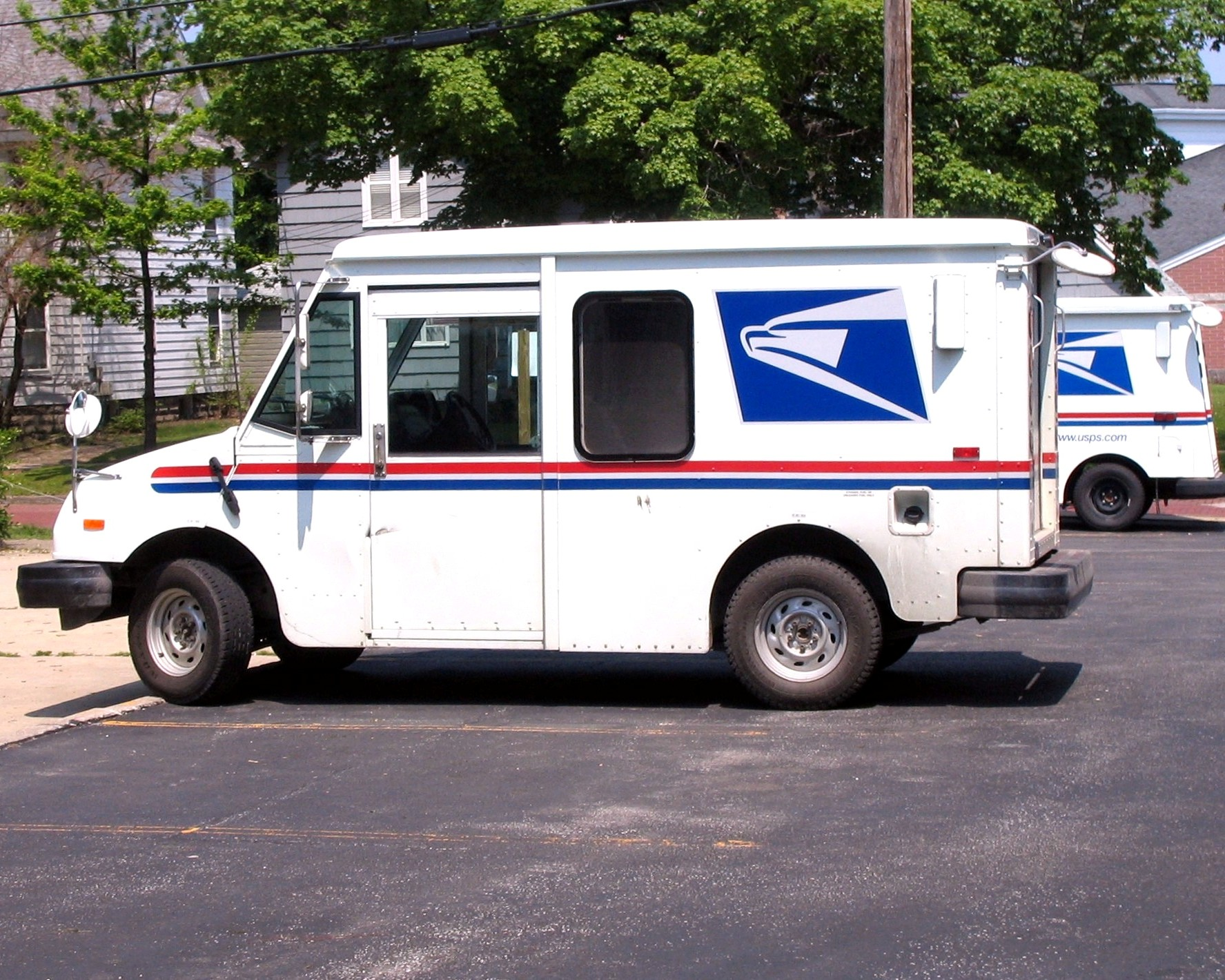 —Public Domain USPS Mail Trucks parked in the Post Office in Conneaut